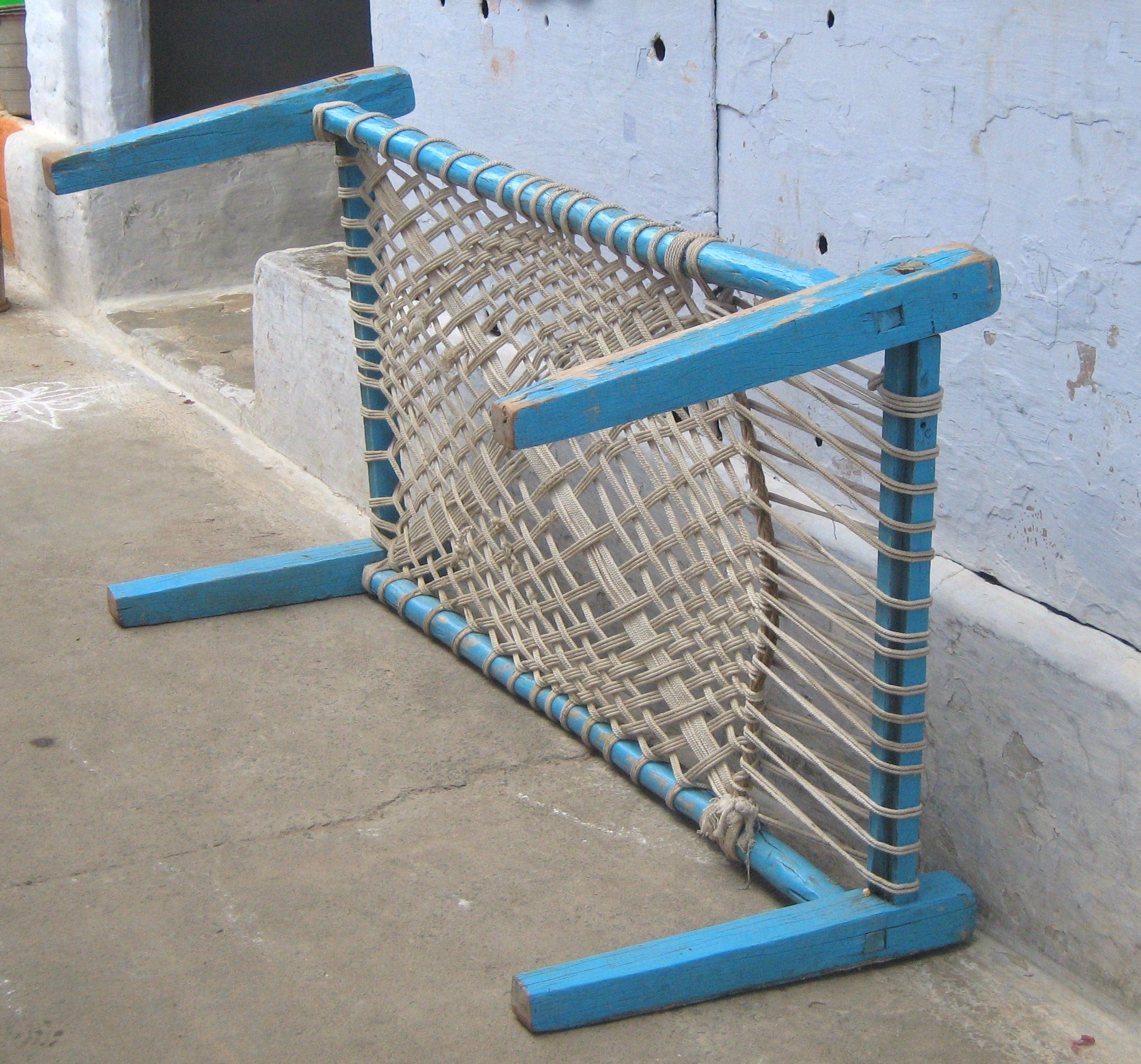 rope cot,Tamil Nadu, India